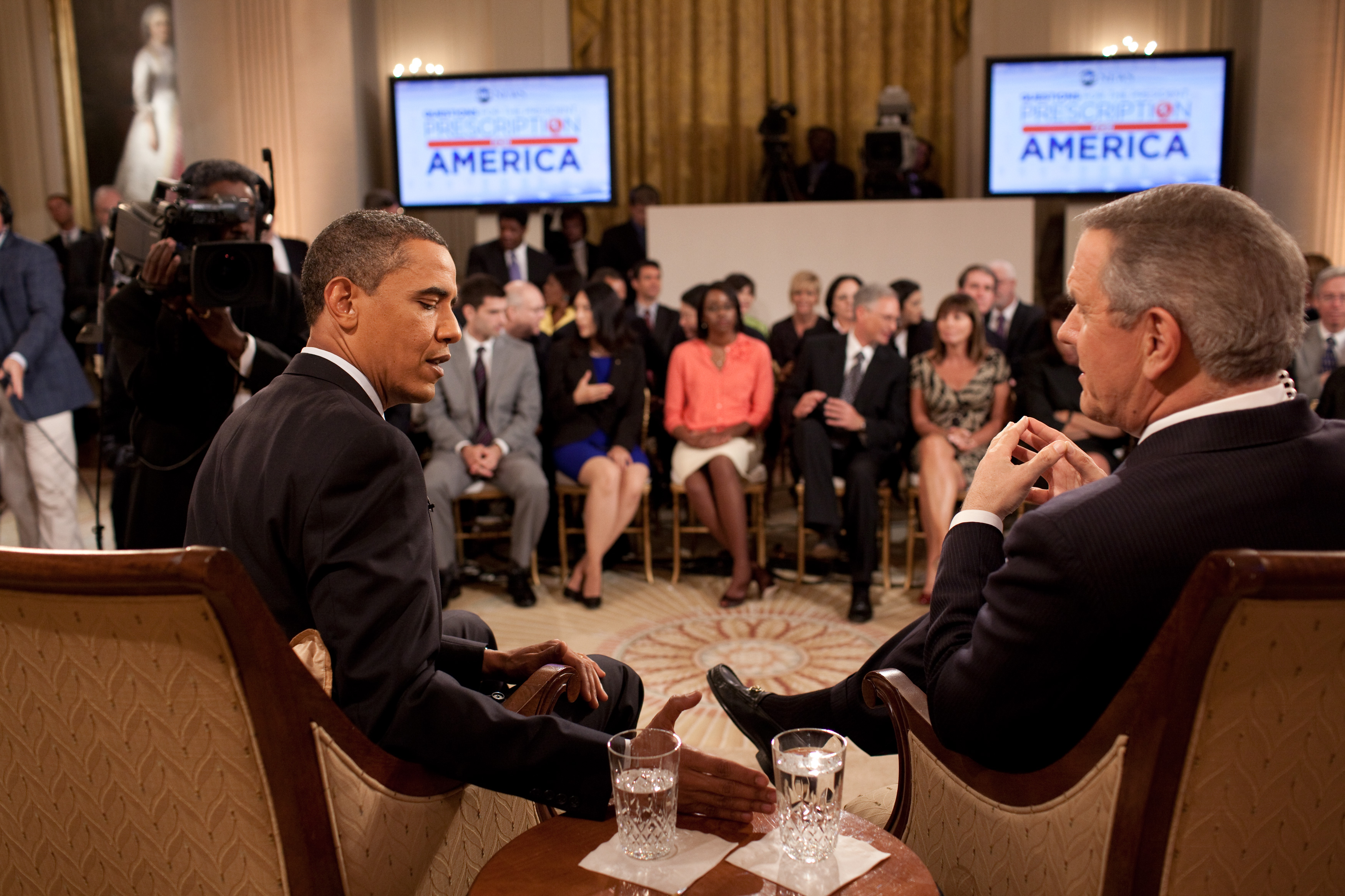 United States President Barack Obama with Charles Gibson in the East Room of the White House for the ABC television channel's "Prescription for America" town hall conversation about health care on 24 June 2009.